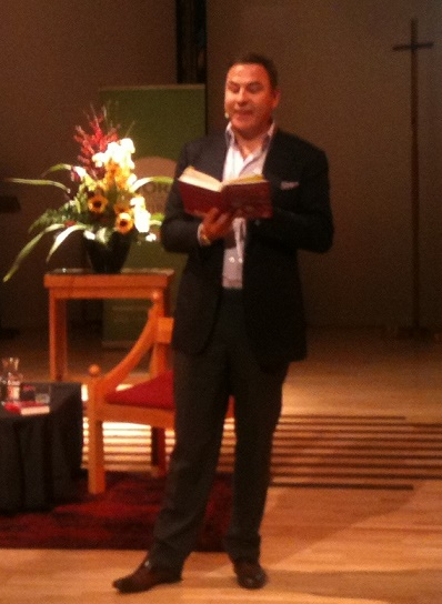 Walliams reading one of his books to an audience in Christchurch, New Zealand, as part of the WORD Christchurch festival.